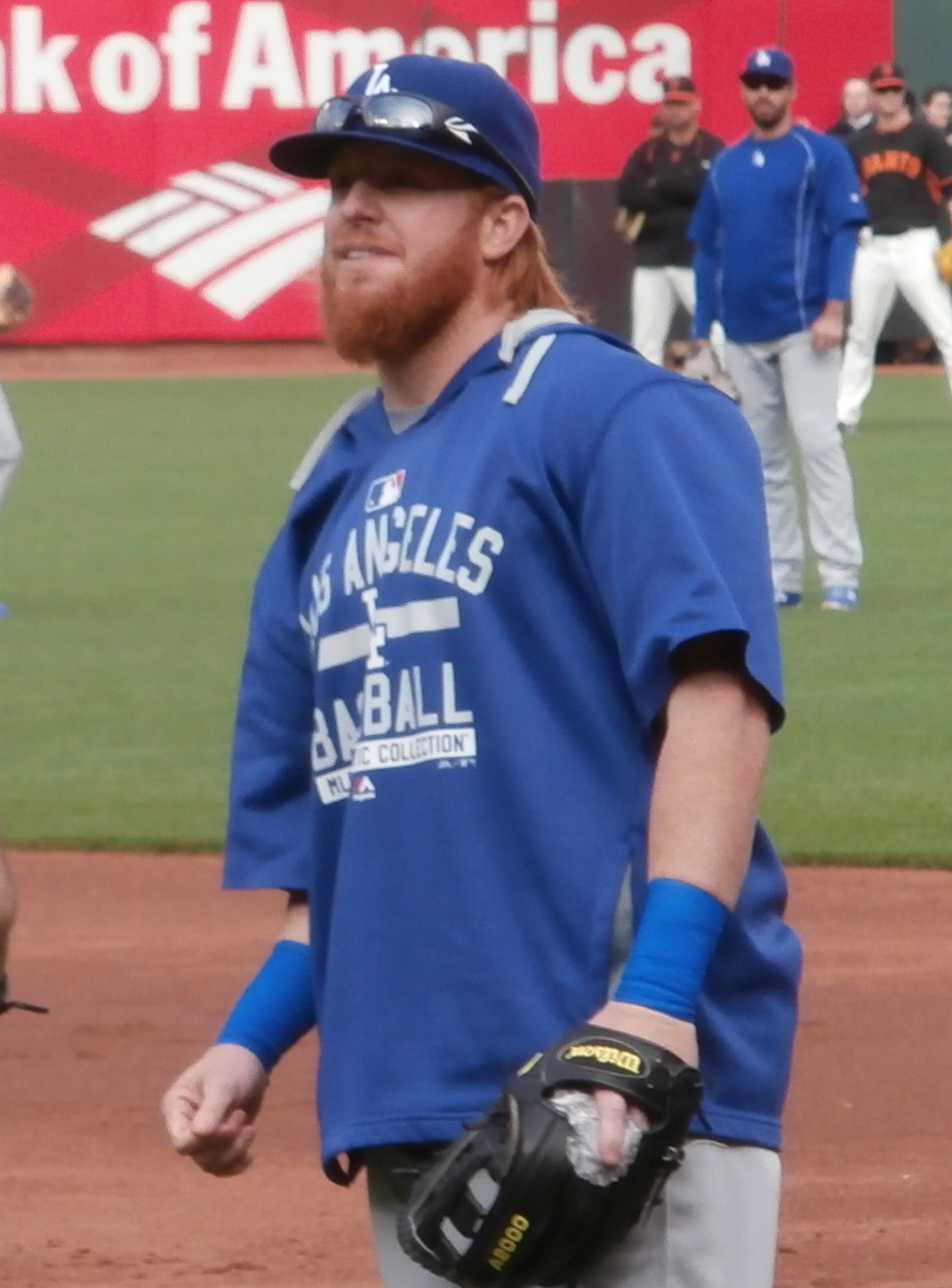 Crop of File:2015 20 May SVS and JT.jpg